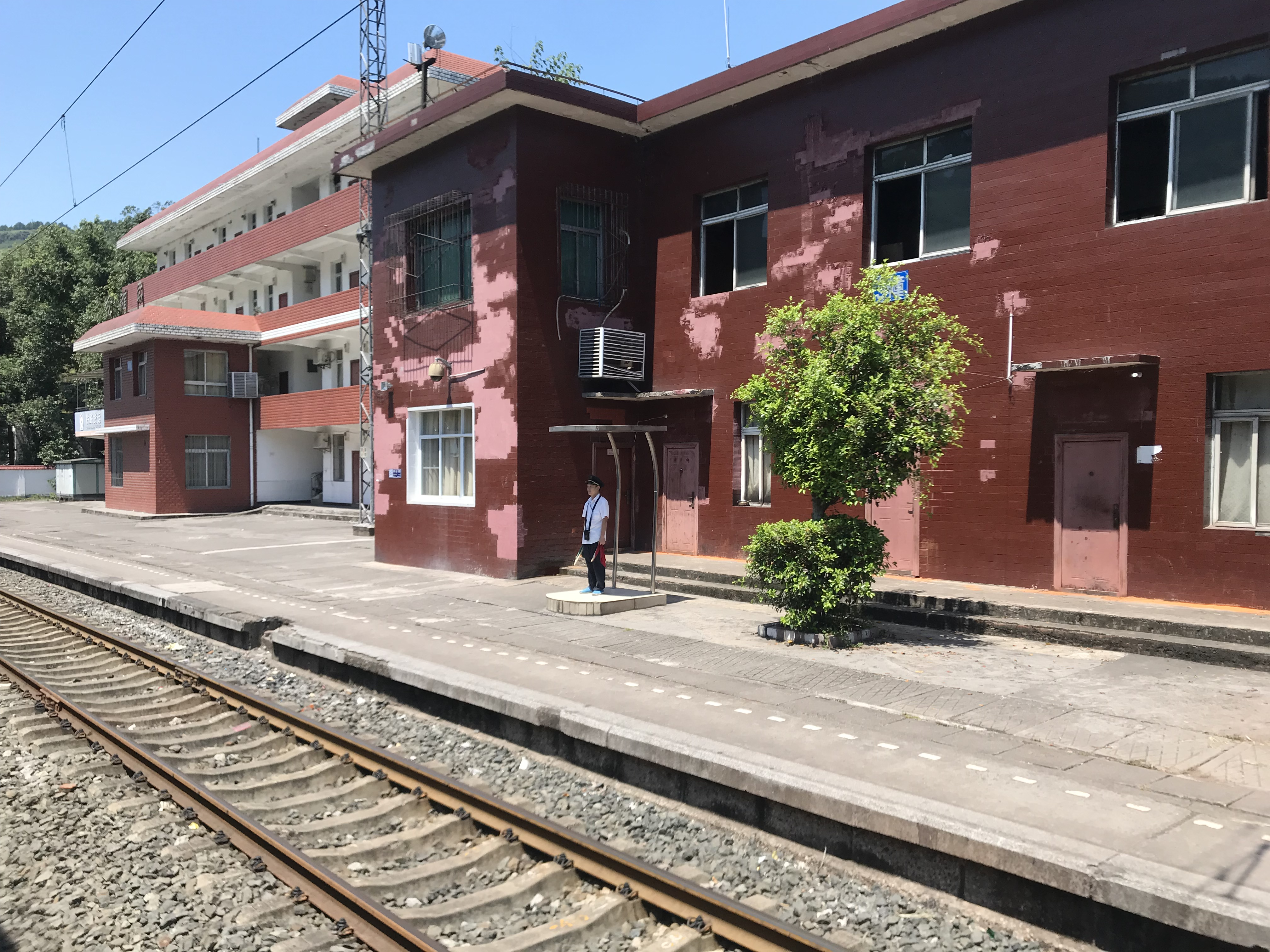 201908 Station Building of Chatan